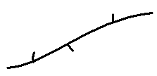 HighDensityPolyethlene02